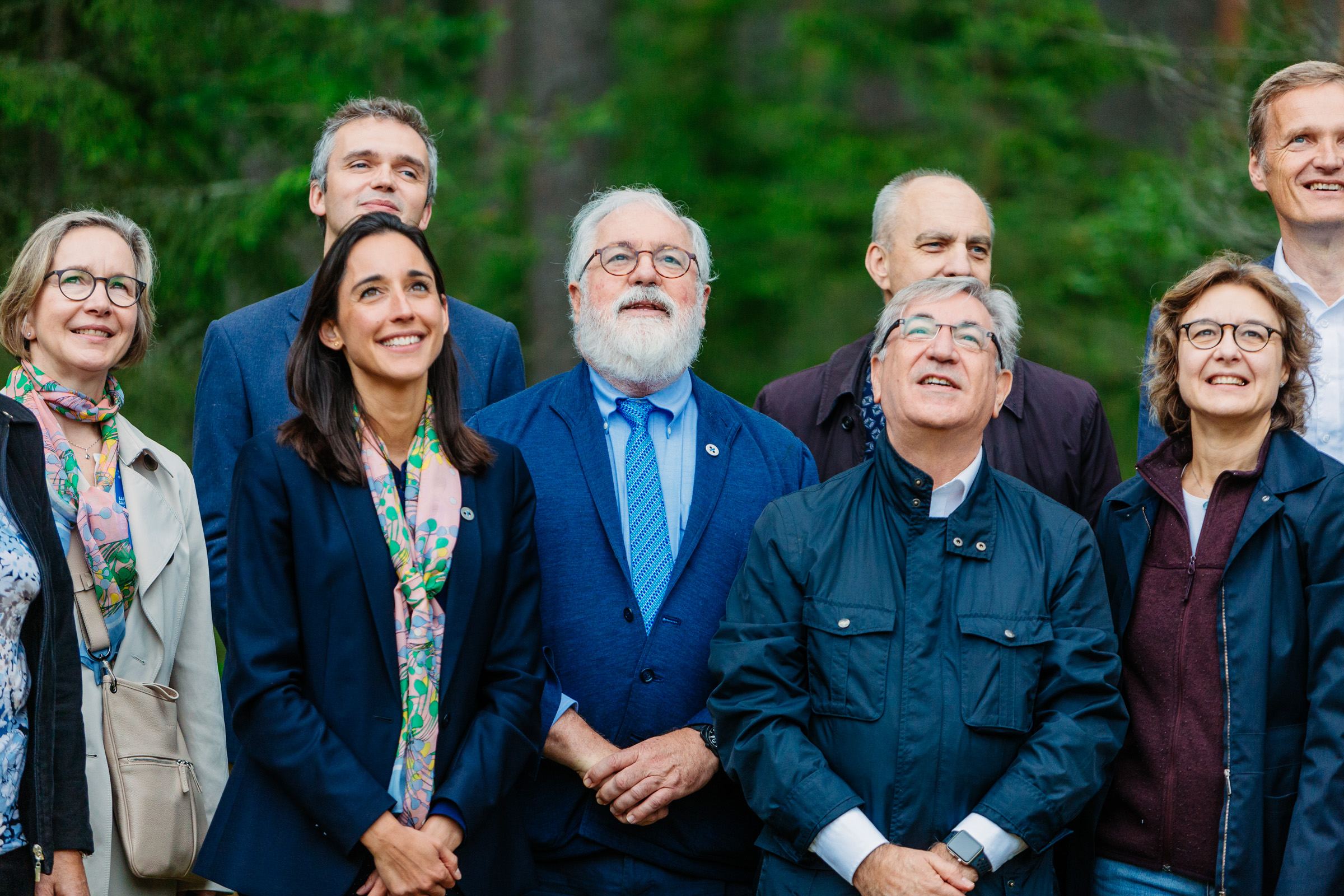 (l-r) Brune Poirson, Secretary of State, Ministry of Environment, France (Eco-Innovation); Miguel Arias Cañete, Commissioner for Climate, Action and Energy, European Commission, European Commission (Climate Change); Karmenu Vella, Commissioner for Environment, Maritime Affairs and Fisheries, European Commission, European Commission (Eco-Innovation)